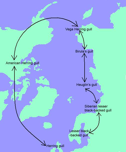 Diagram showing the ring species formed by herring gulls in the arctic, created by Viki Male 13/09/04